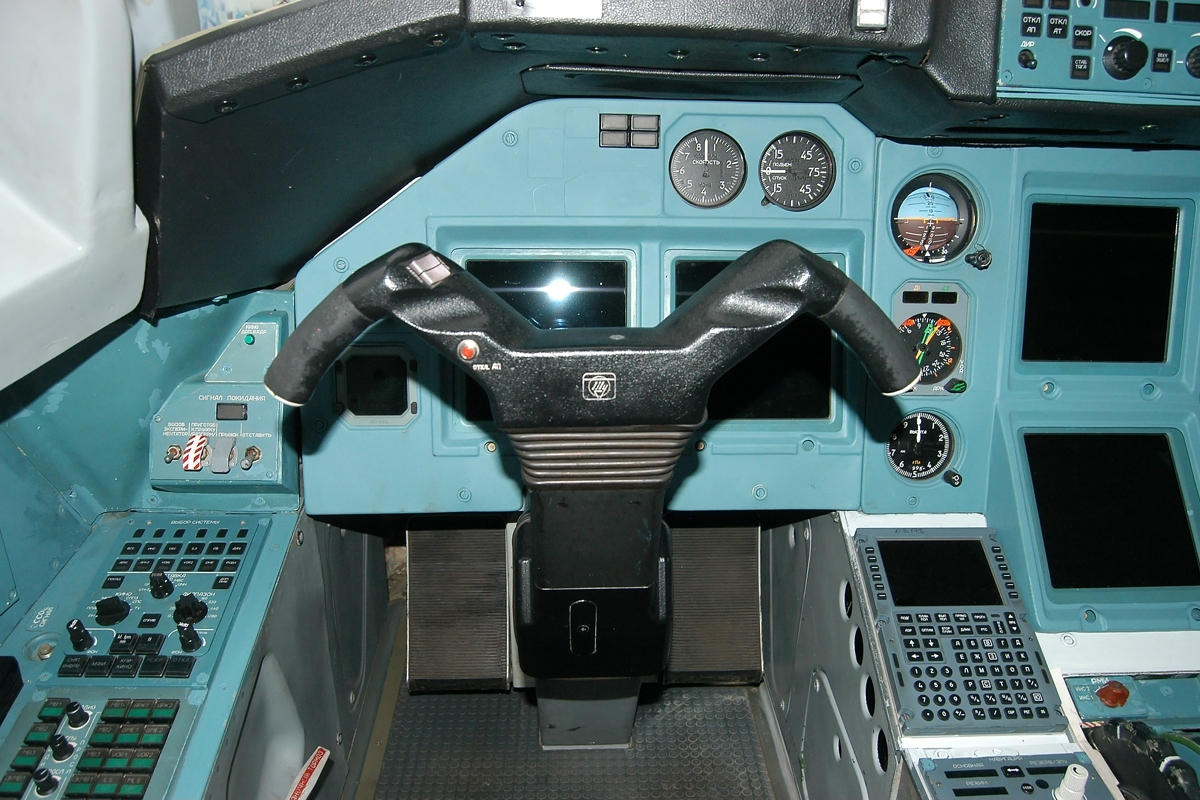 Cockpit of Tupolev Tu-334 airliner